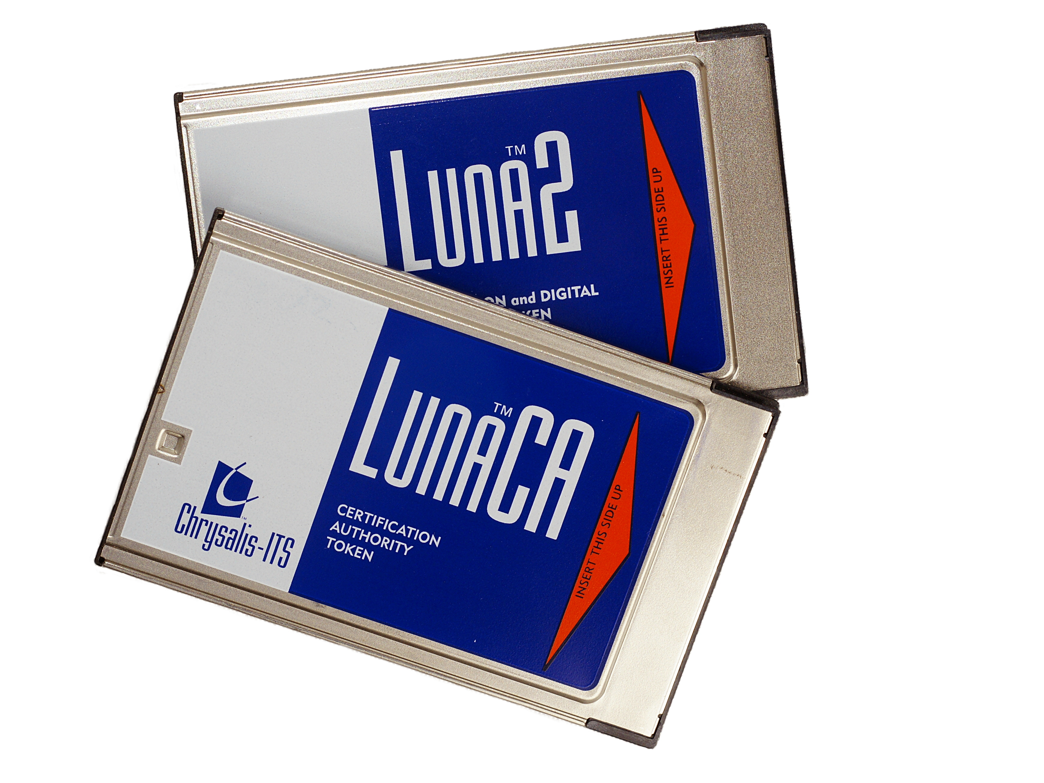 Older Chrysalis-ITS Luna Hardware Security Modules